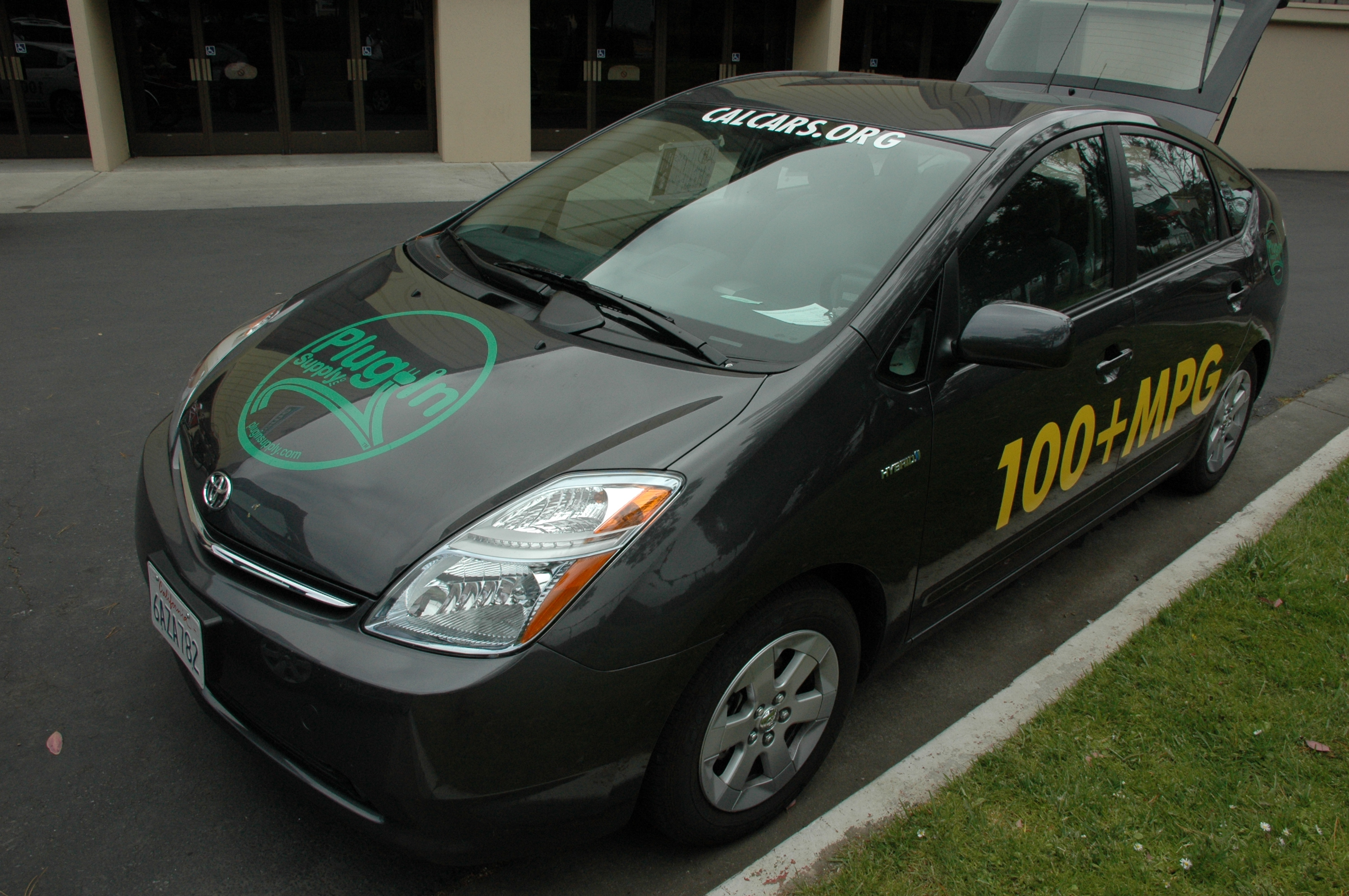 Maker Faire 2008, San Mateo - CalCar's Plug-in Prius